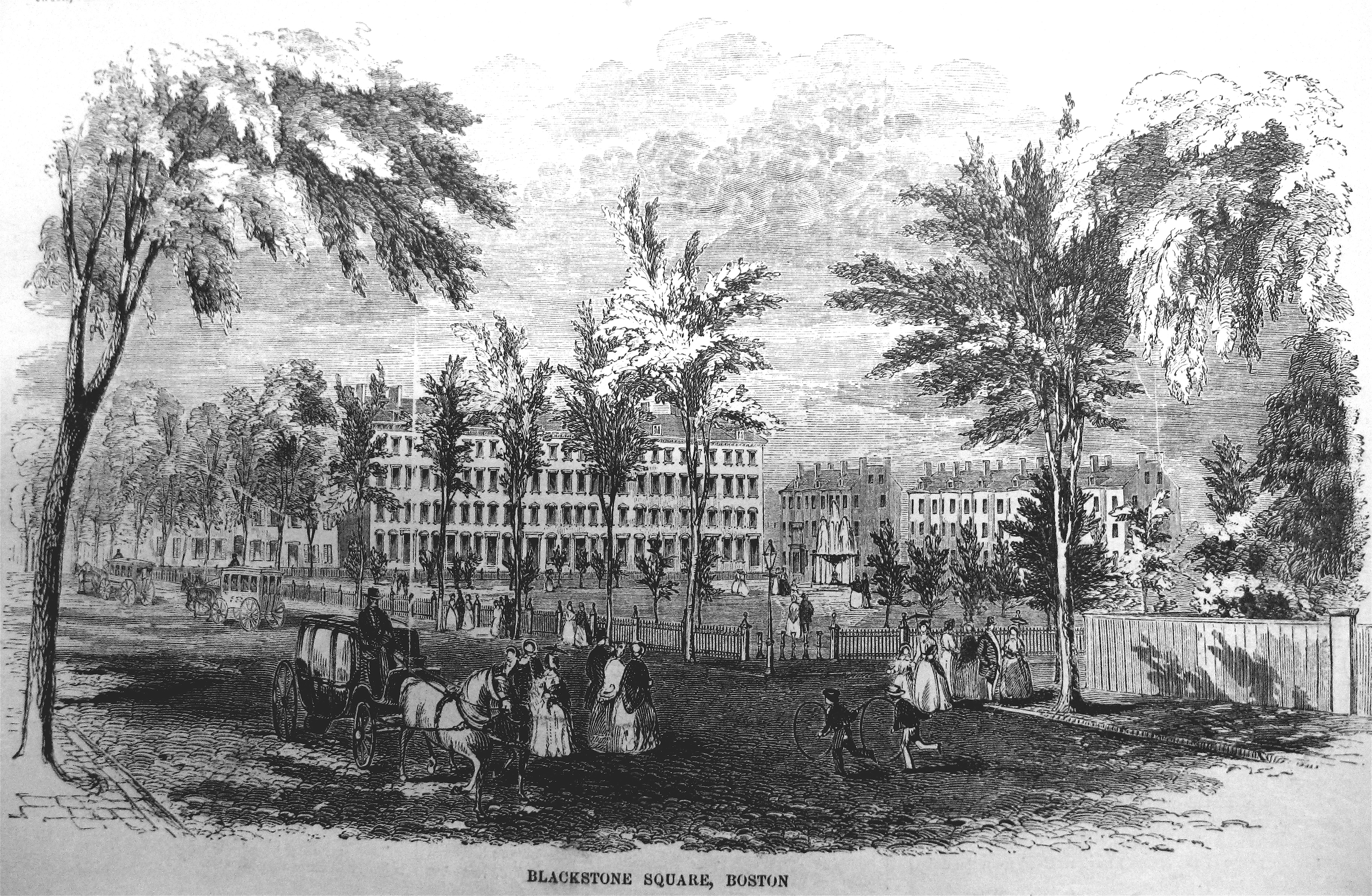 Blackstone Square, Boston, 19th c.